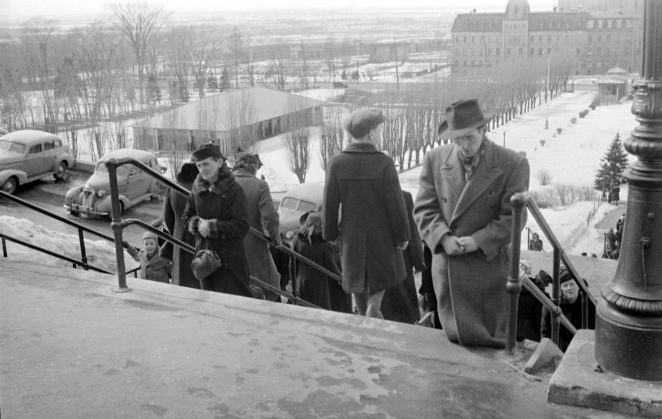 Pilgrims climb knees and other down the stairs of the St. Joseph's Oratory located at 3800 Queen Mary Road in Montreal.